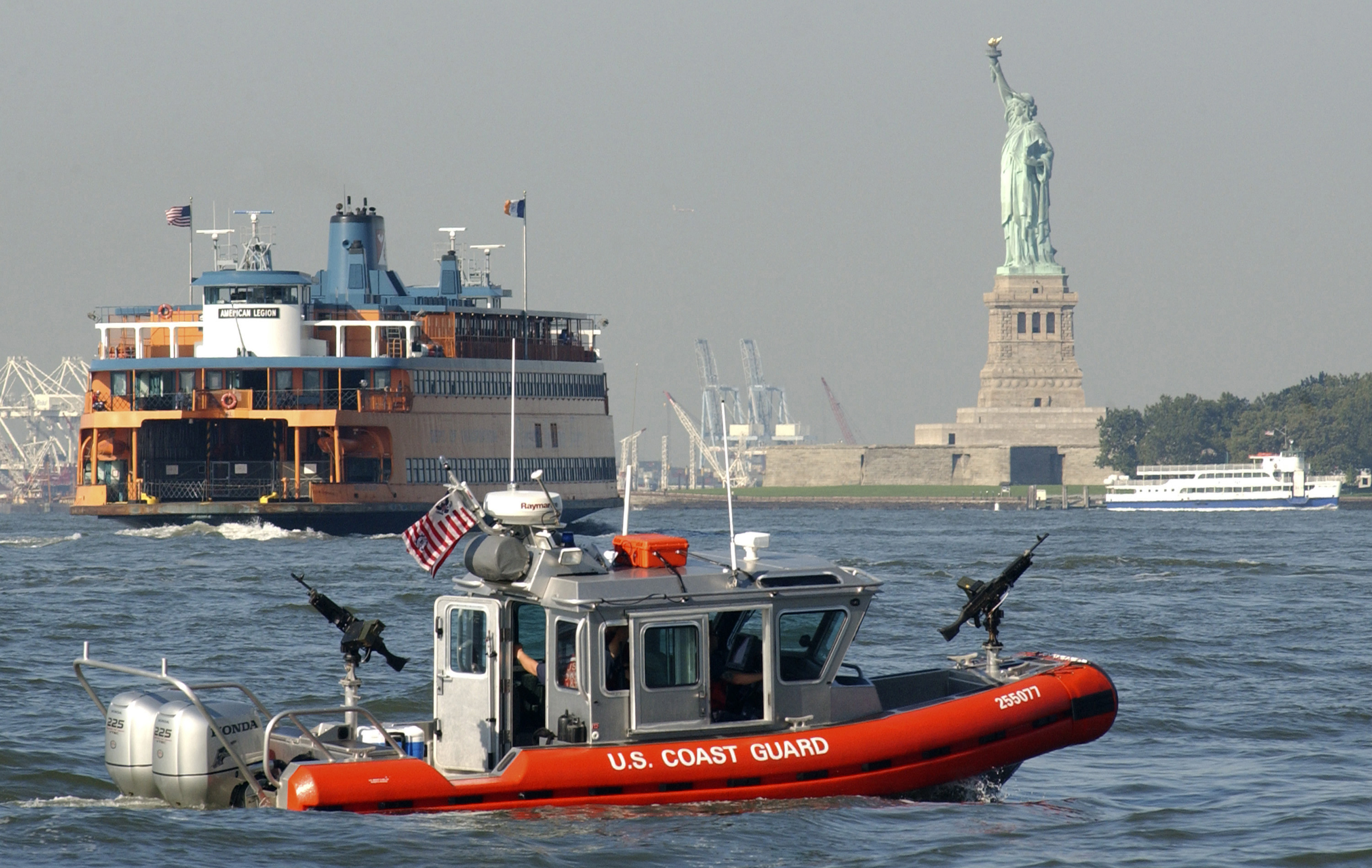 New York (Sept. 1, 2004) - A 25-foot Defender class security boat (255077) attached to the Coast Guard Maritime Safety and Security Team 91106 keeps watch over passenger vessels (MV American Legion) and high profile landmarks in New York Harbor. The U.S. Coast Guard is leading the multi-agency waterside security effort around Manhattan during the Republican National Convention. U.S. Coast Guard photo by Public Affairs Specialist 3rd Class Kelly Newlin (RELEASED)